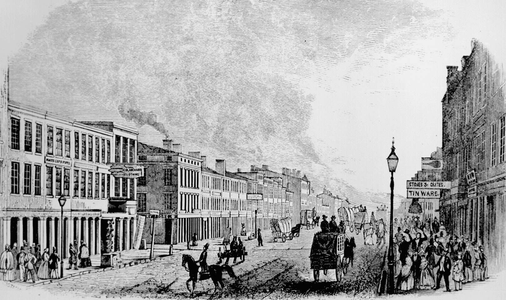 "View of Main Street, Louisville, in 1846." Engraving from History of Kentucky by Richard H. Collins (1874).